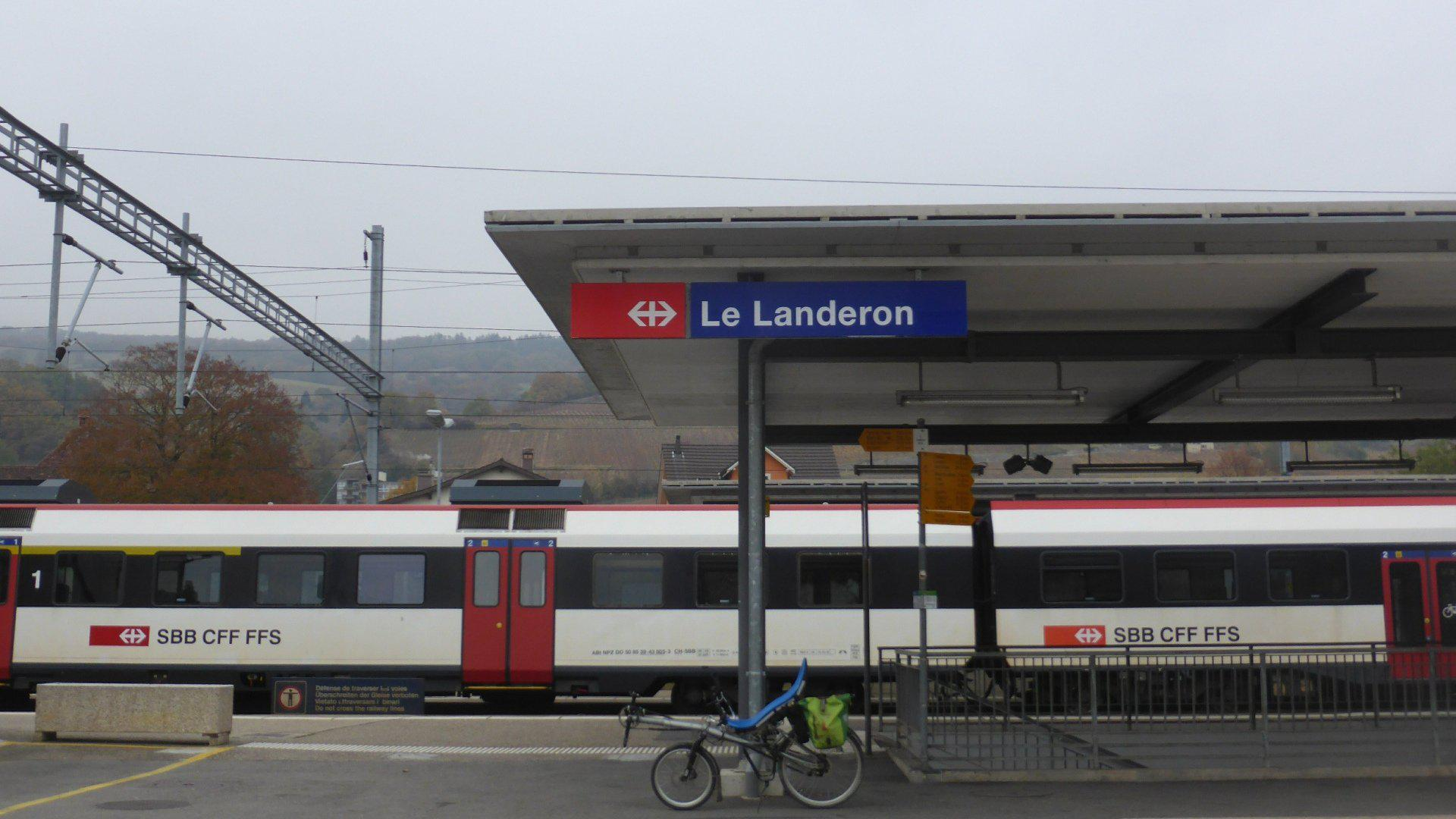 Le Landeron railway station in Le Landeron, Switzerland.